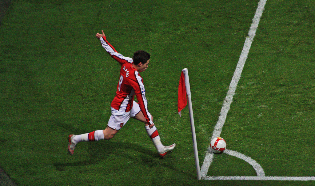 Nasri prepares to whip one in